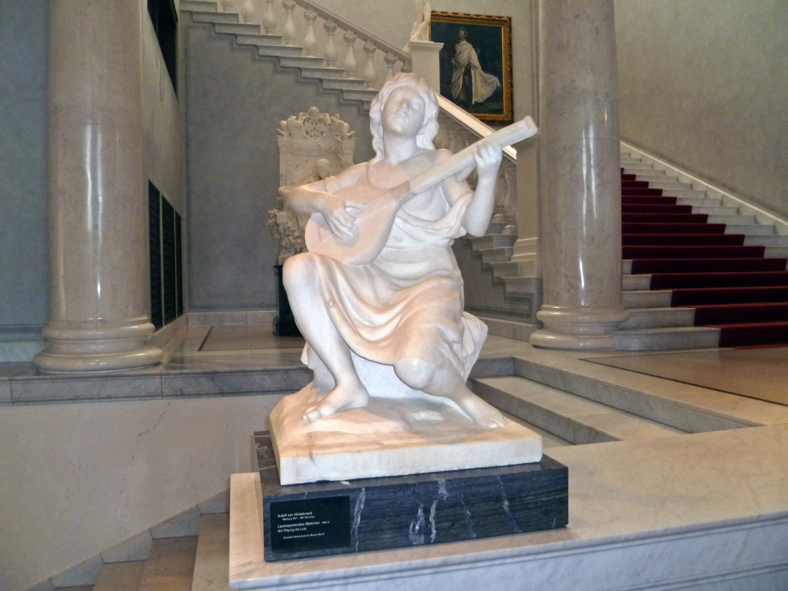 Girl playing the lute (1908-1913) by Adolf von Hildebrand (18416-1921)